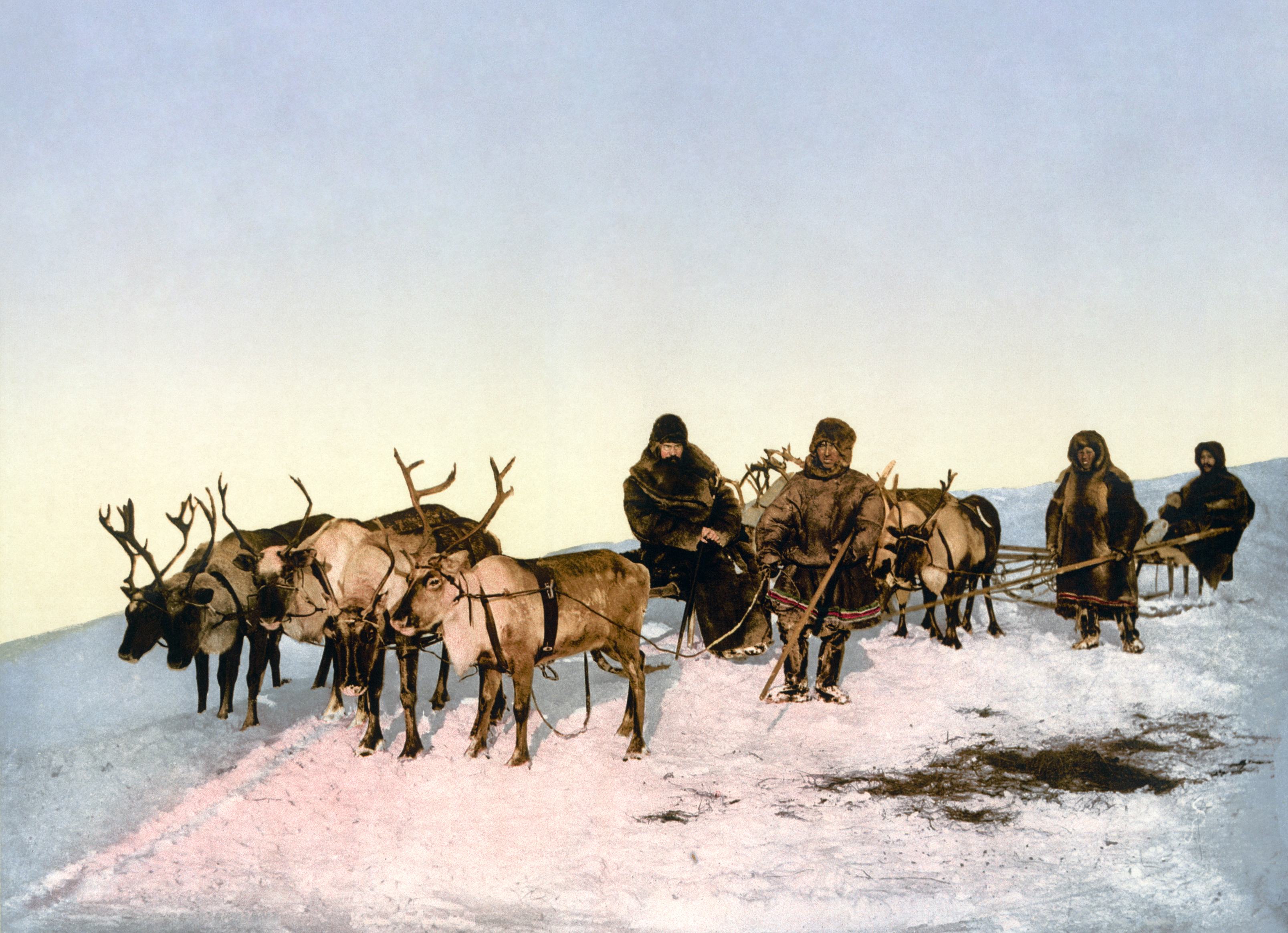 Traveling by reindeer, Arkhangelsk, Russia. photomechanical print : photochrom, color.